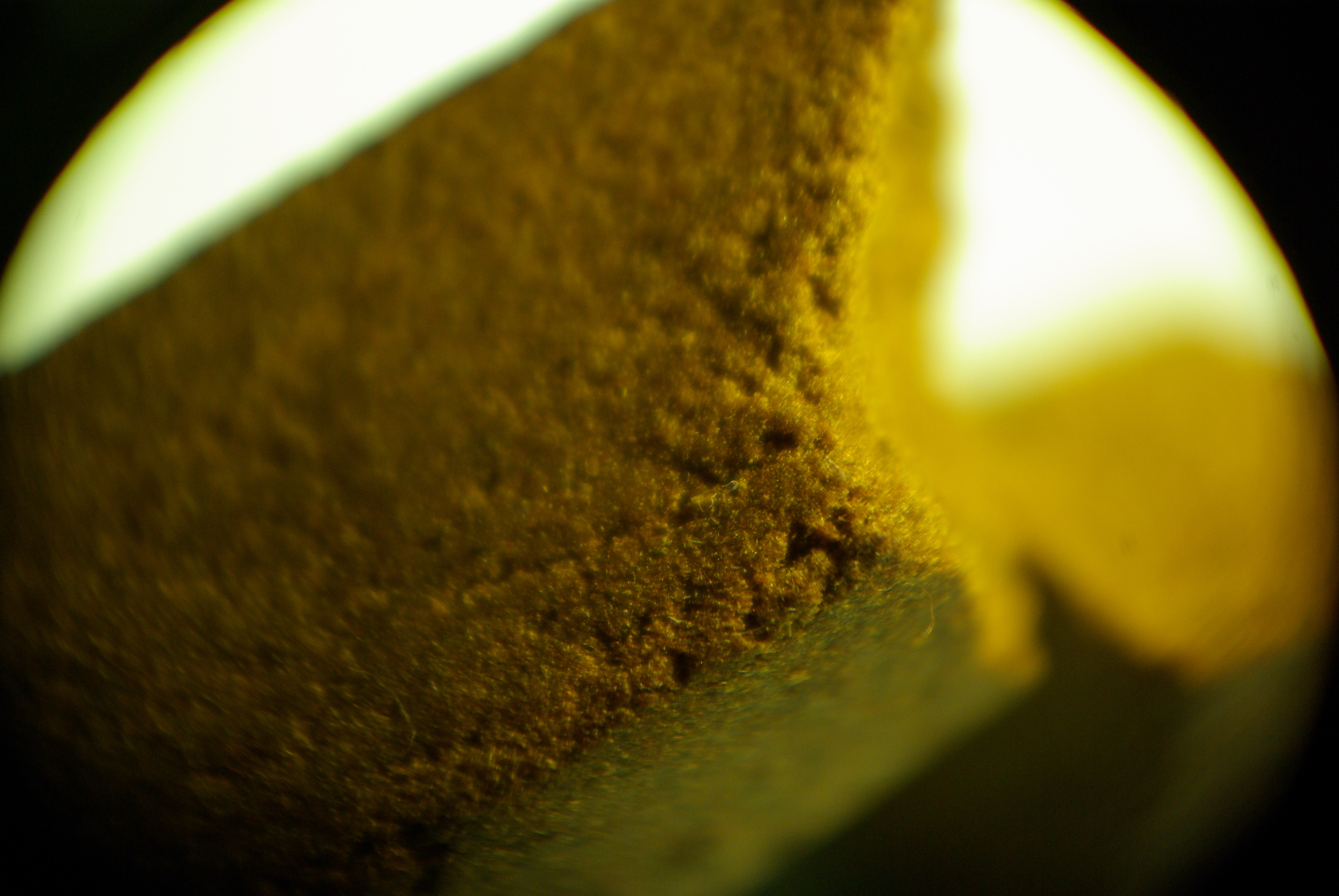 Picture of haschich in macro.